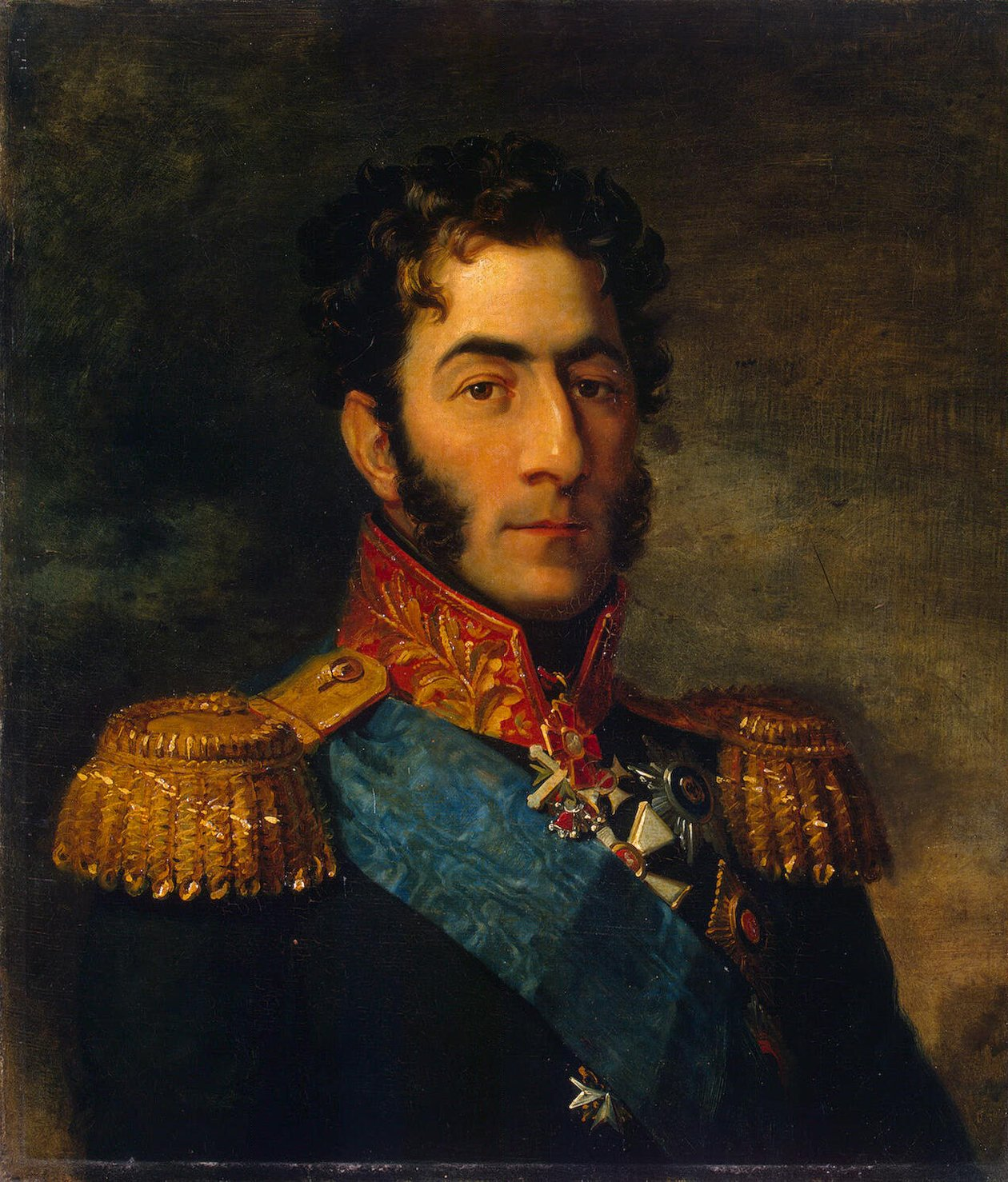 Peter Ivanovich Bagration (1765-1812) russian general